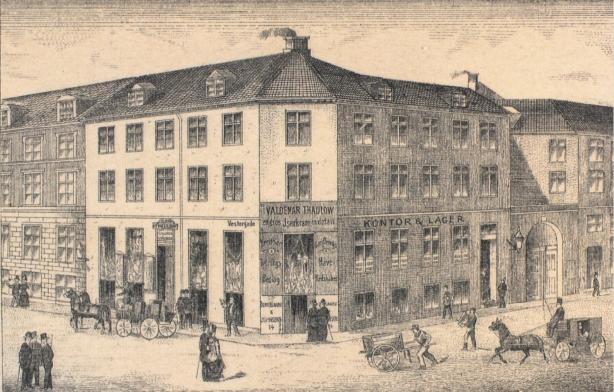 Vestergade nr. 14 som Valdemar Thaulow Isenkramhandel